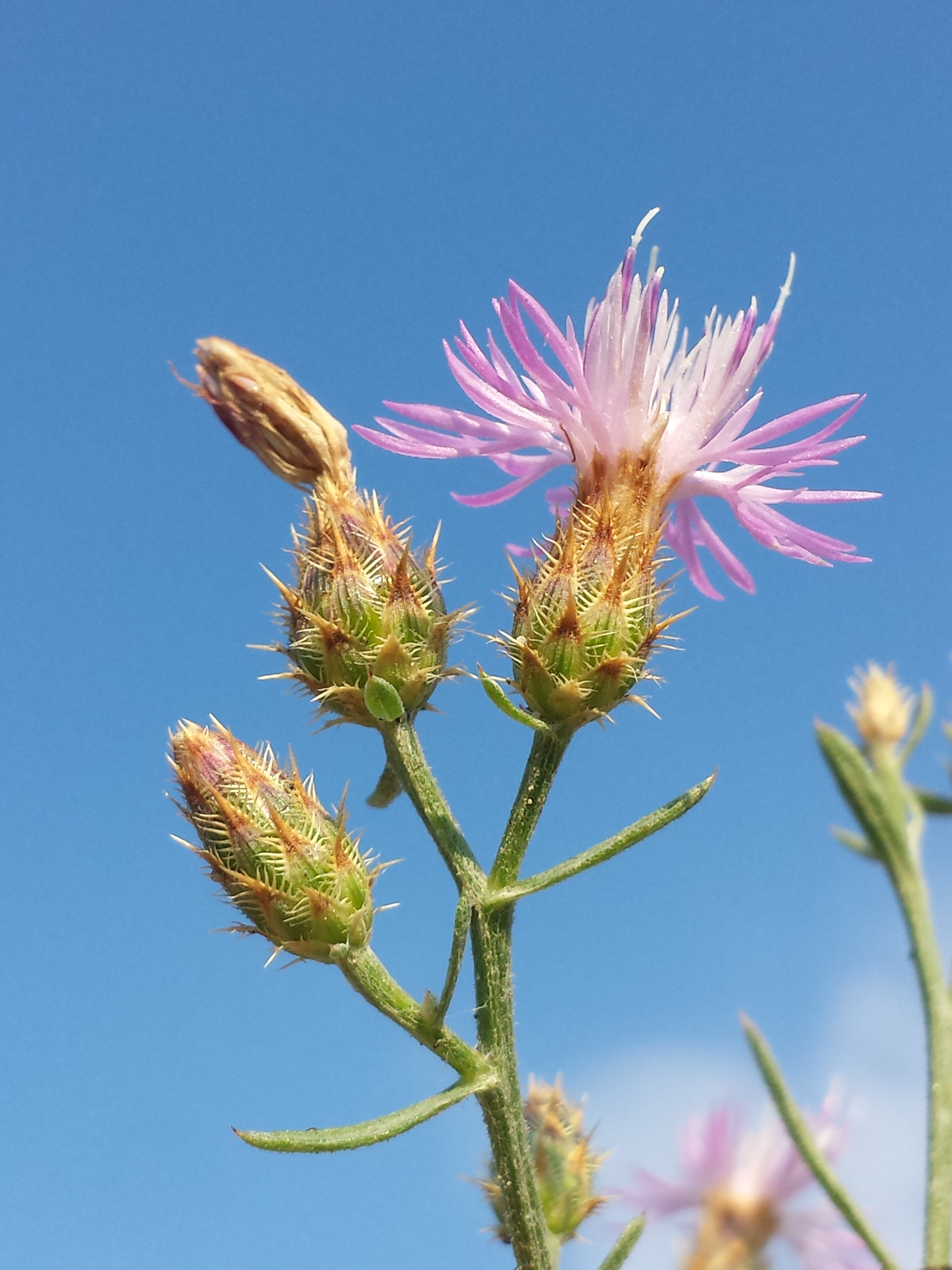 Inflorescence Taxonym: Centaurea diffusa ss Fischer et al. EfÖLS 2008 ISBN 978-3-85474-187-9 Location: industrial wasteland Grellgasse, Vienna-Floridsdorf - ca. 160 m a.s.l. Habitat: ruderal area